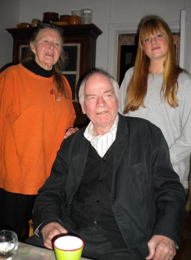 Swedish (image) artists Inga Brorson Brand & Erland Brand and one of their granddaughtersPlace: Brand residence, Gothenburg, Sweden